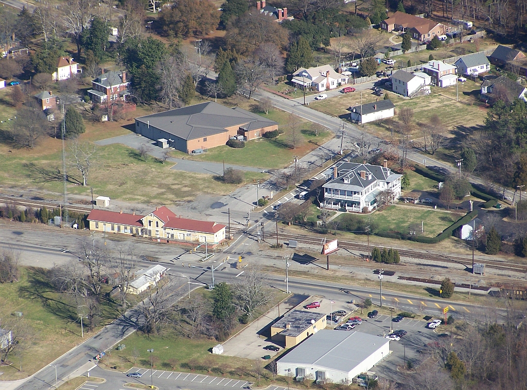 Lee Hall, Virginia. Lee Hall Depot and Boxwood Inn (center of photo).